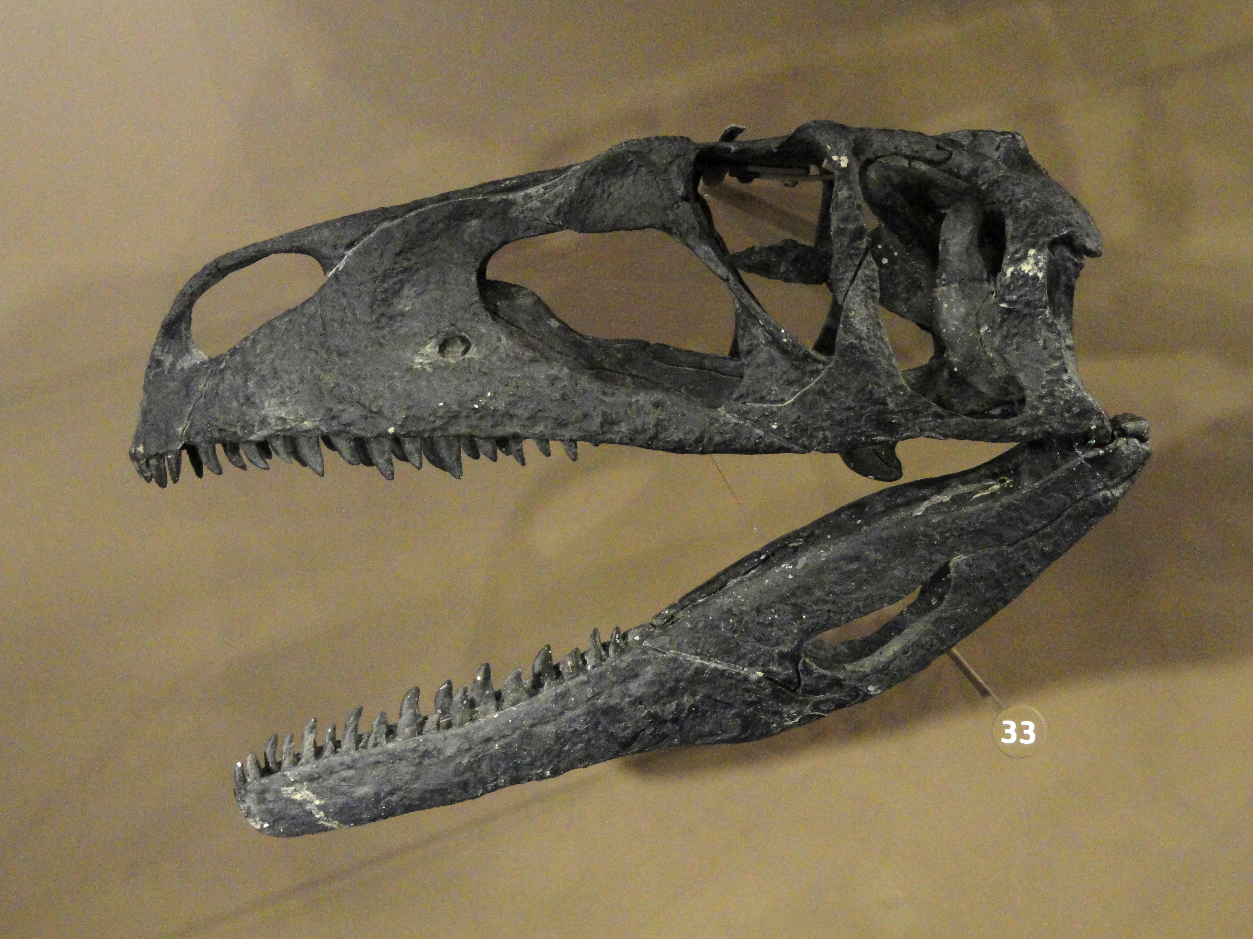 Fossil specimen in the Natural History Museum of Utah, Salt Lake City, Utah, USA.